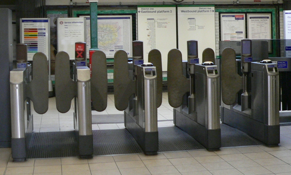 The gateline at West Kensington tube station